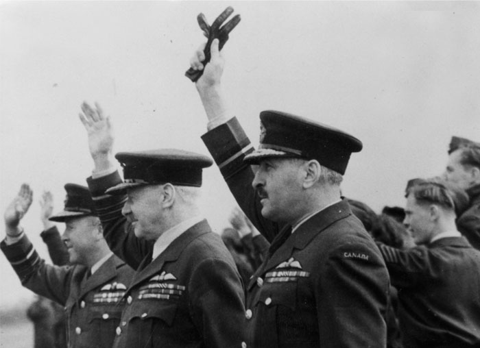 At RAF Middleton St. George, RCAF Air Vice-Marshal Clifford Mackay “Black Mike” McEwen, commander of 6 Group (foreground), Air Vice-Marshal Arthur “Bomber” Harris (middle) and RCAF Air Marshal G.O. Johnson, AOC RCAF Overseas (background) wave goodbye to the first of 141 Canadian Lancasters departing for Canada. A/V/M McEwen was a First World War fighter pilot with 22 aerial victories. One of the Lancs destined to join Tiger Force was Lancaster KB999, the 300th Canadian-built Lancaster. When it came off the assembly line in Malton, Ontario, Victory Aircraft Corporation production staff dedicated this aircraft to McEwen and had his pennant painted on the nose with the words “Malton Mike”. After the end of the war, KB999 was assigned to the RCAF’s 405 Vancouver Squadron and flew A/V/M McEwan to Canada on June 17, 1945. PHOTO: Bomber Command Museum of Canada Collection